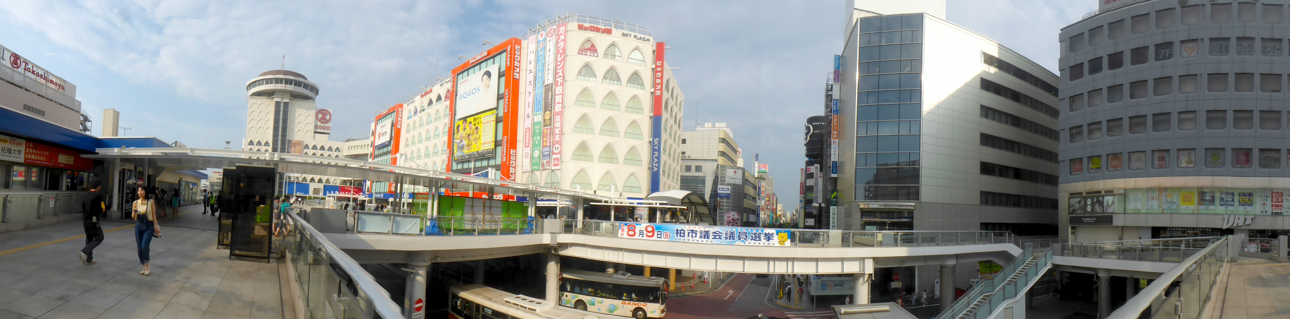 柏駅の東口、パノラマ (East exit of Kashiwa Station, panorama)